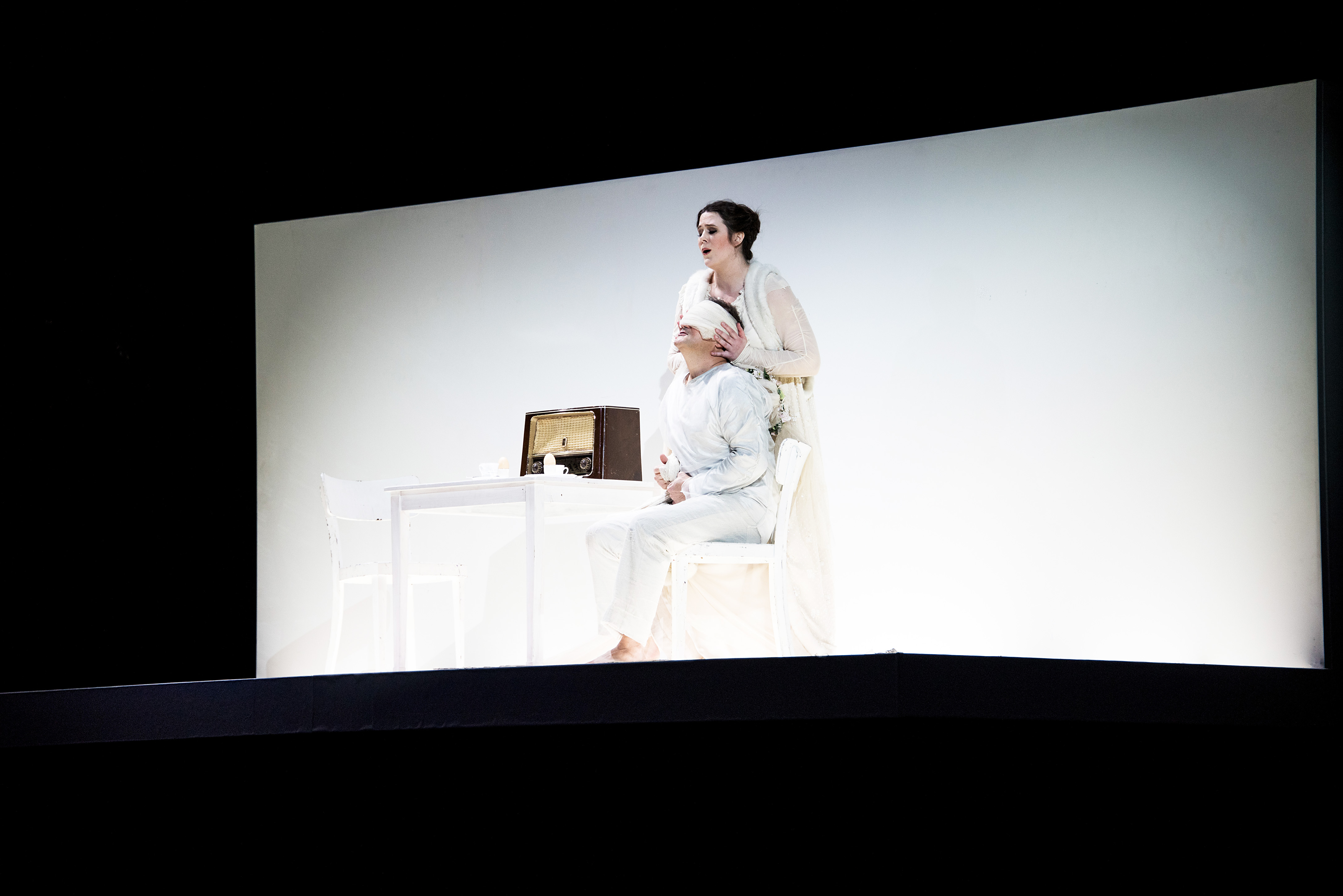 Lohengrin by Richard Wagner, Opera Oslo 2015